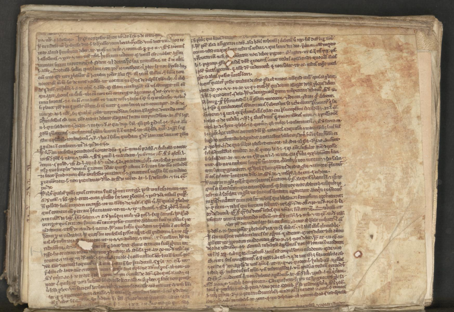 Gesta Francorum ("The Deeds of the Franks") or in full Gesta Francorum et aliorum Hierosolimitanorum ("The deeds of the Franks and the other pilgrims to Jerusalem") is a Latin chronicle of the First Crusade written in circa 1100-1101 by an anonymous author connected with Bohemond I of Antioch